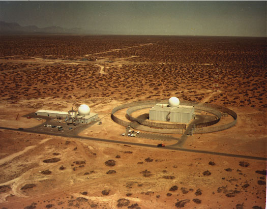 Image of the Nike Zeus Target Tracking Radar (TTR) on the left and Zeus Discrimination Radar (DR) on the right, installed at White Sands Missile Range in the late 1950s as part of Launch Complex 38. The Battery Control Center and Missile Tracking Radars (MTR) are just out-of-frame on the left. The missile launch site can be seen in the background.